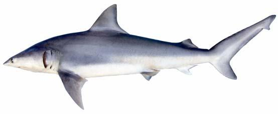 Finetooth shark (Carcharhinus isodon)